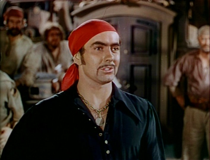 Tyrone Power in a screenshot from the trailer for the film The Black Swan.